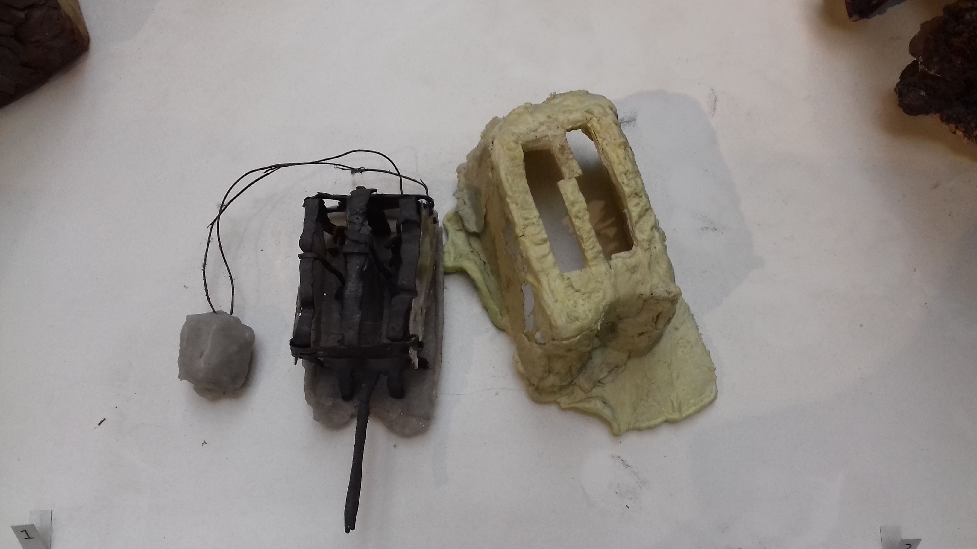 Metal toaster and its plastic casing from The Toaster Project, an MA design project by Thomas Thwaites in which he created a toaster by sourcing, refining and processing the materials (mica, copper, steel, nickel, plastic). From an installation at the Victoria and Albert Museum in room 76 "Design since 1945", seen in August 2017.